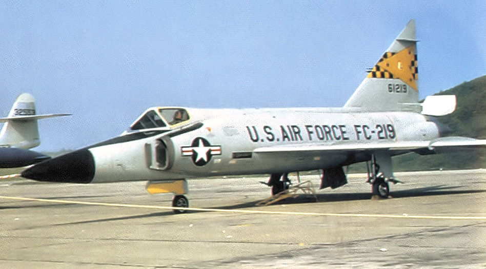 27th Fighter-Interceptor Squadron F-102A-65-CO Delta Dagger 56-1219